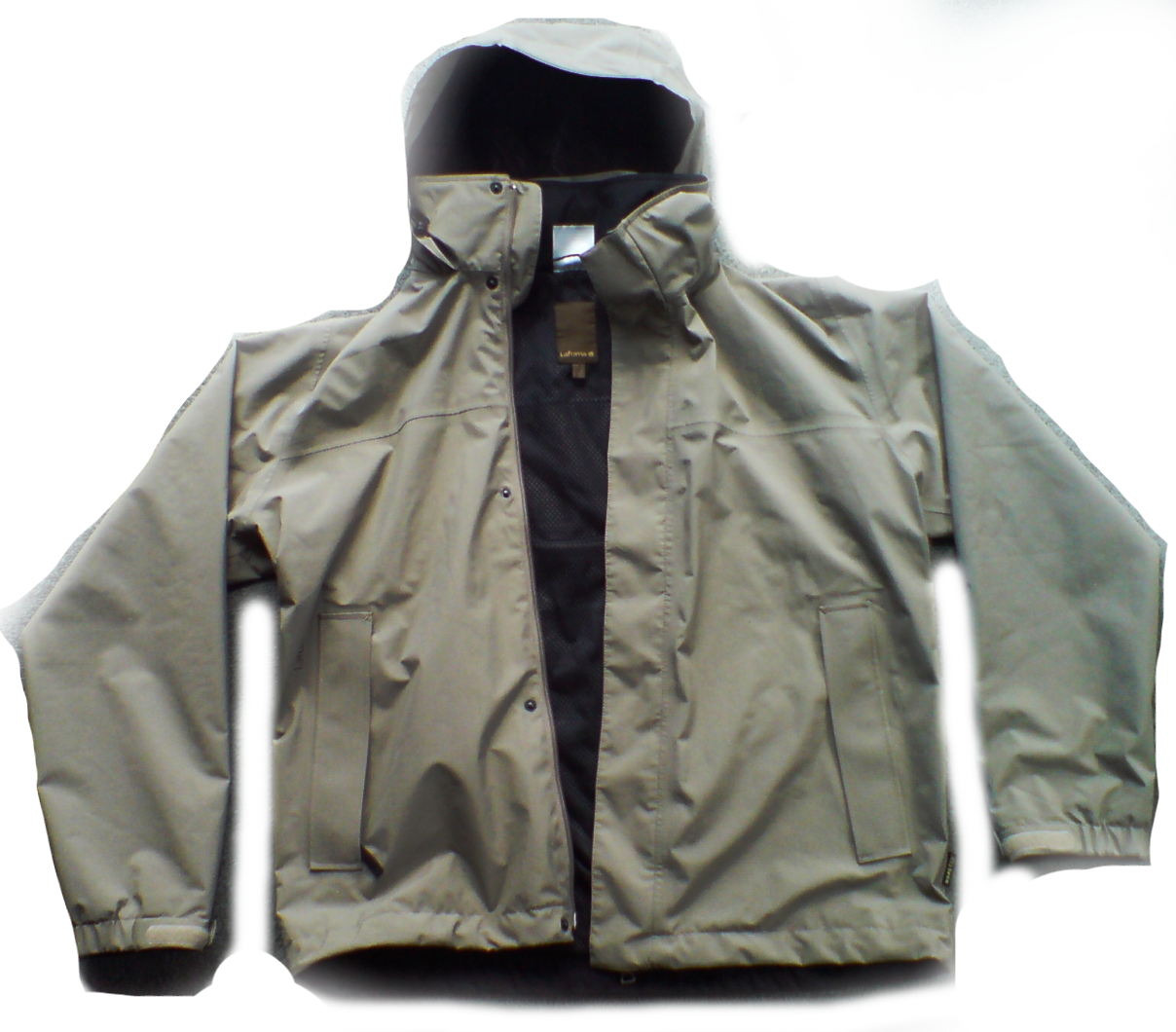 Windbreaker with PNG alpha channel.